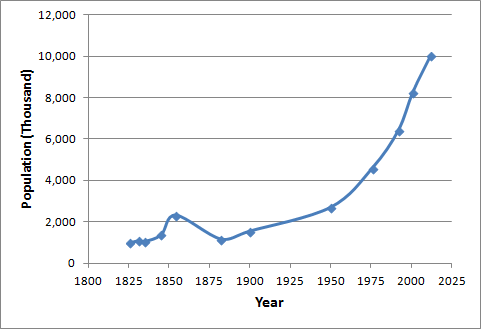 Scatter plot of the population of Bolivia from the first estimated census (1826) to the most recent (2012).